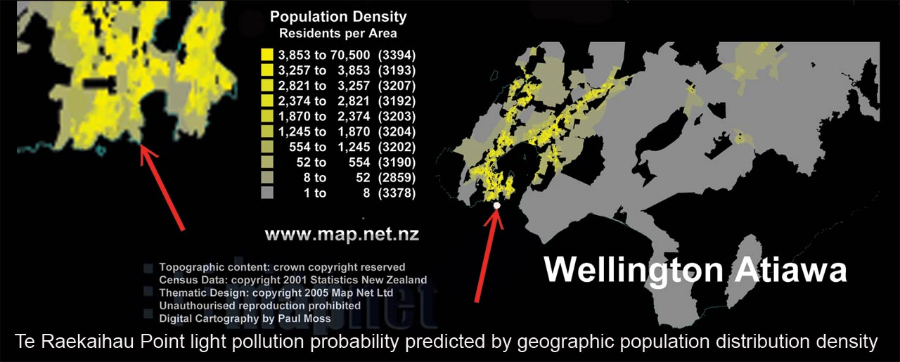 LightPollutionTeRaekaihau.jpg - photo taken and uploaded by Paul Moss, Photographer, Artist, Paul Moss Photographer Artist NZ